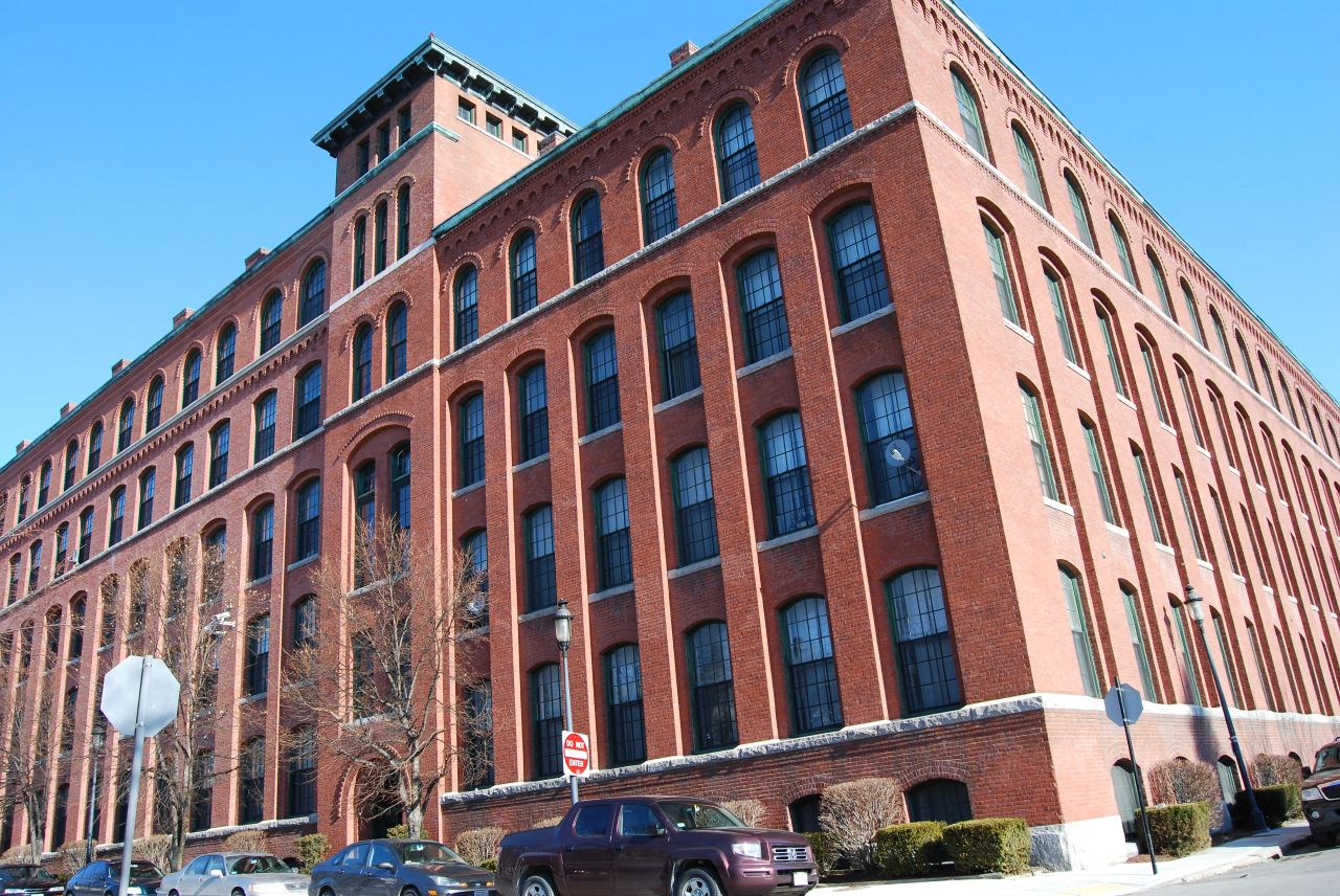 Worcester Corset Company Factory (now Lofts), Worcester, Massachusetts